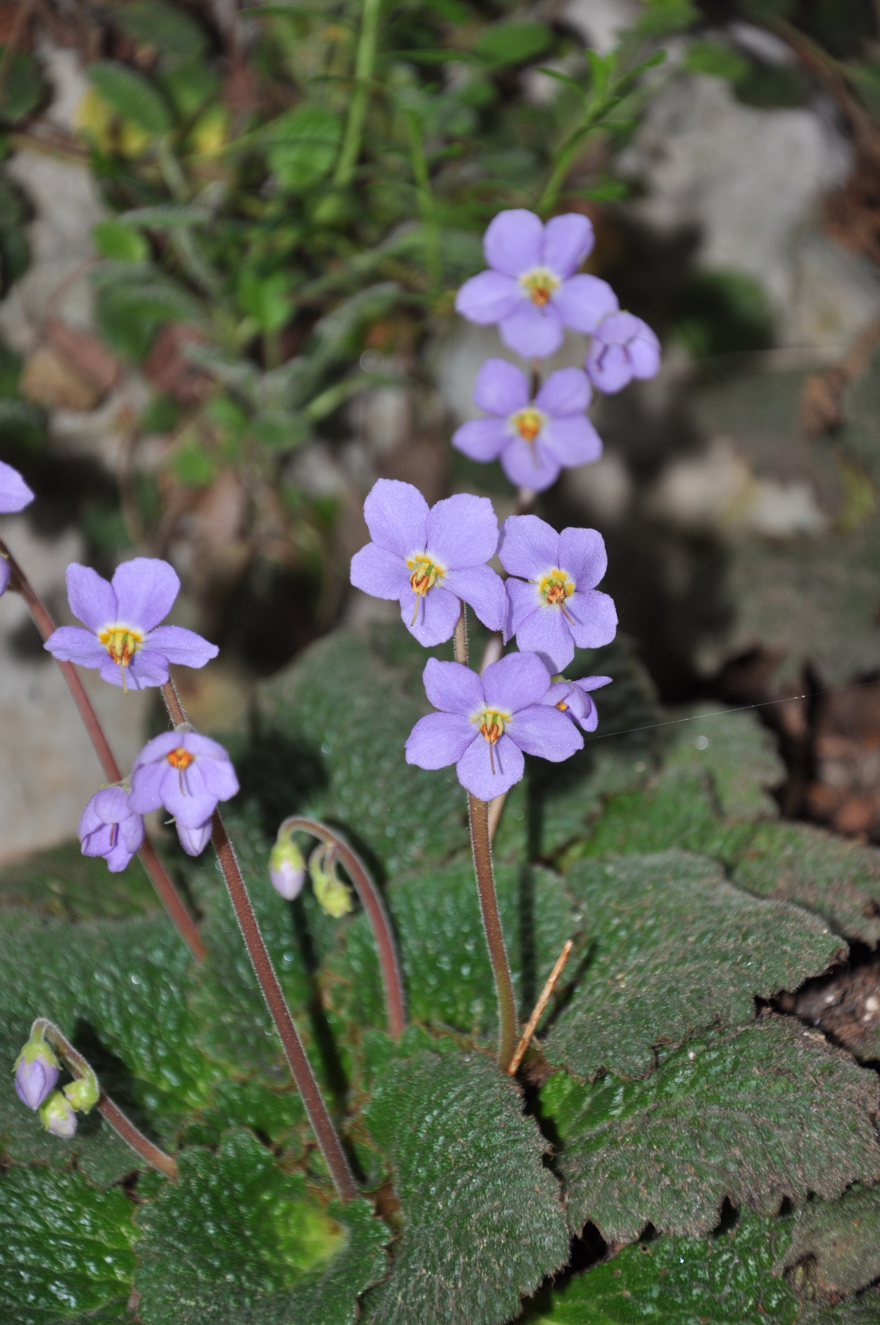 Pyrenean-violet